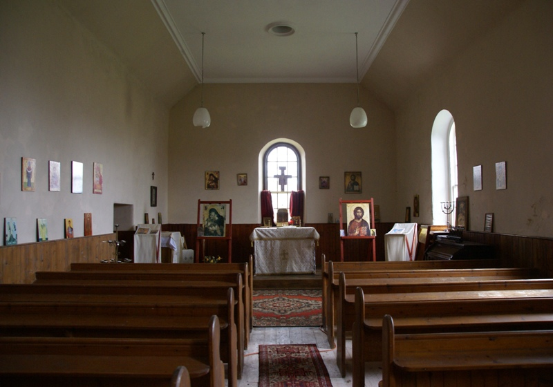 Kilninian Church, Mull, Argyll and Bute, Scotland. Interior.